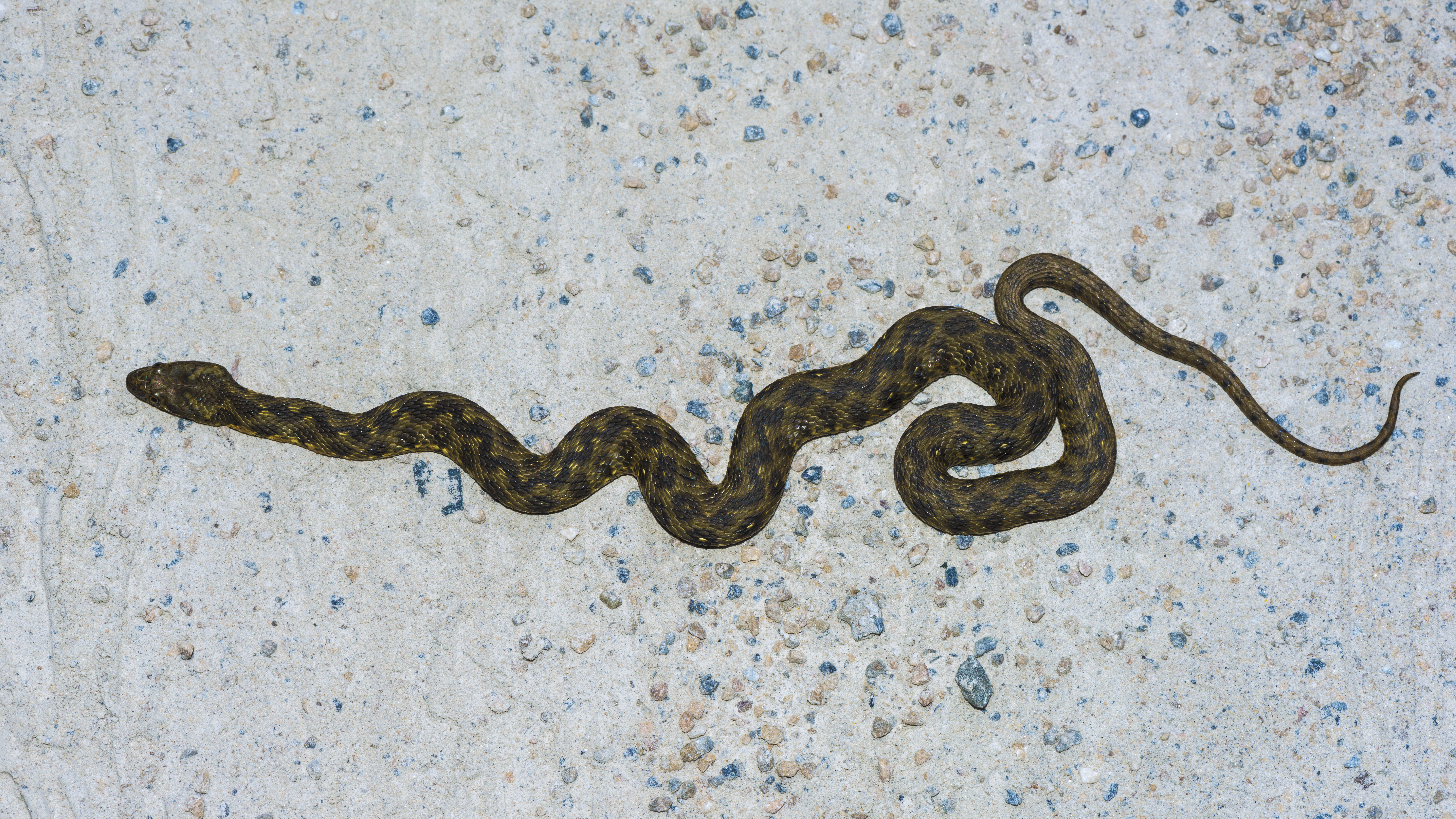 Natrix maura (Viperine water snake).